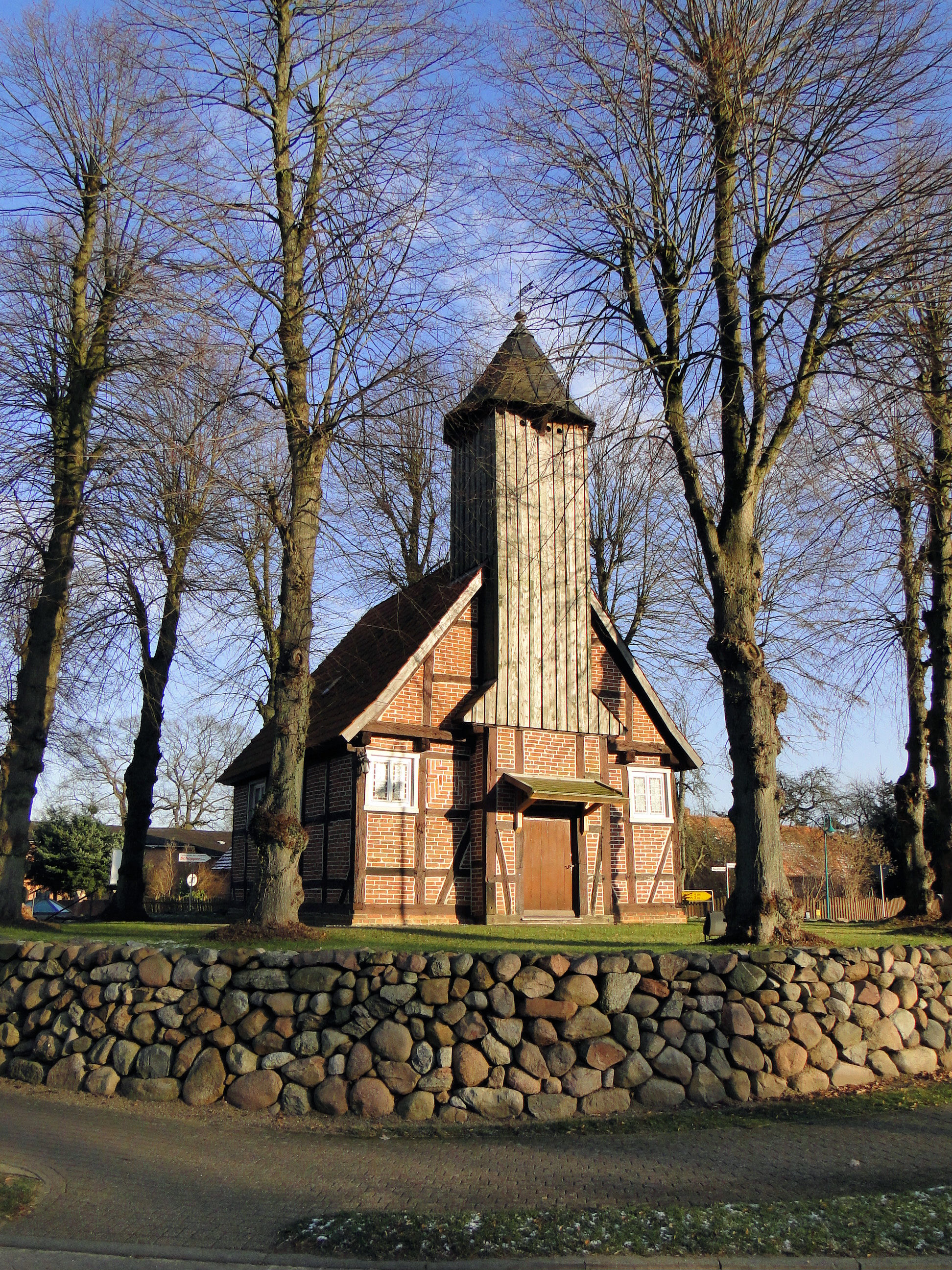 Church in Gallin, district Ludwigslust, Mecklenburg-Vorpommern, Germany